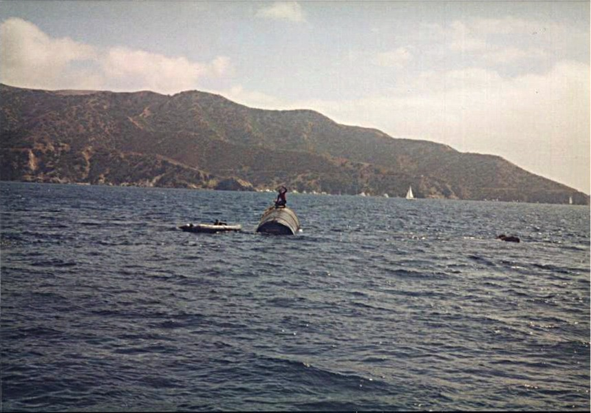 Picture of the floating gas tank